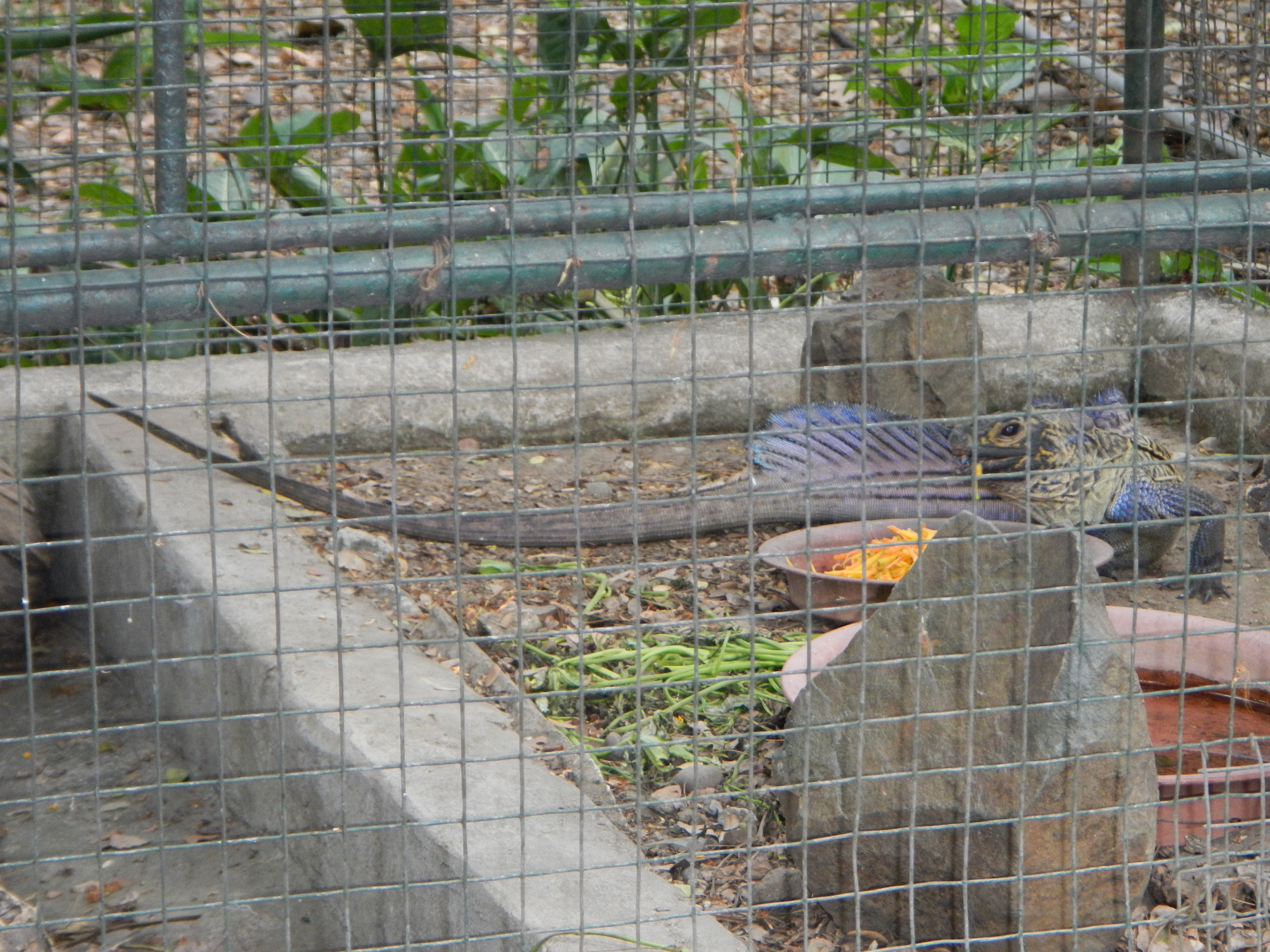 Philippine Sailfin Lizard[1]The Philippine Sailfin Lizard, Crested Lizard, Sail-fin Lizard, Sailfin Water Lizard, or Soa-soa Water Lizard (Hydrosaurus pustulatus) is an oviparous lizard living only in the Philippines. Ninoy Aquino Parks & Wildlife Center[2] (NAPWC) is a 64.58-hectare (159.6-acre) zoological and botanical garden located in Diliman,[3] Quezon City,[4] the Philippines.